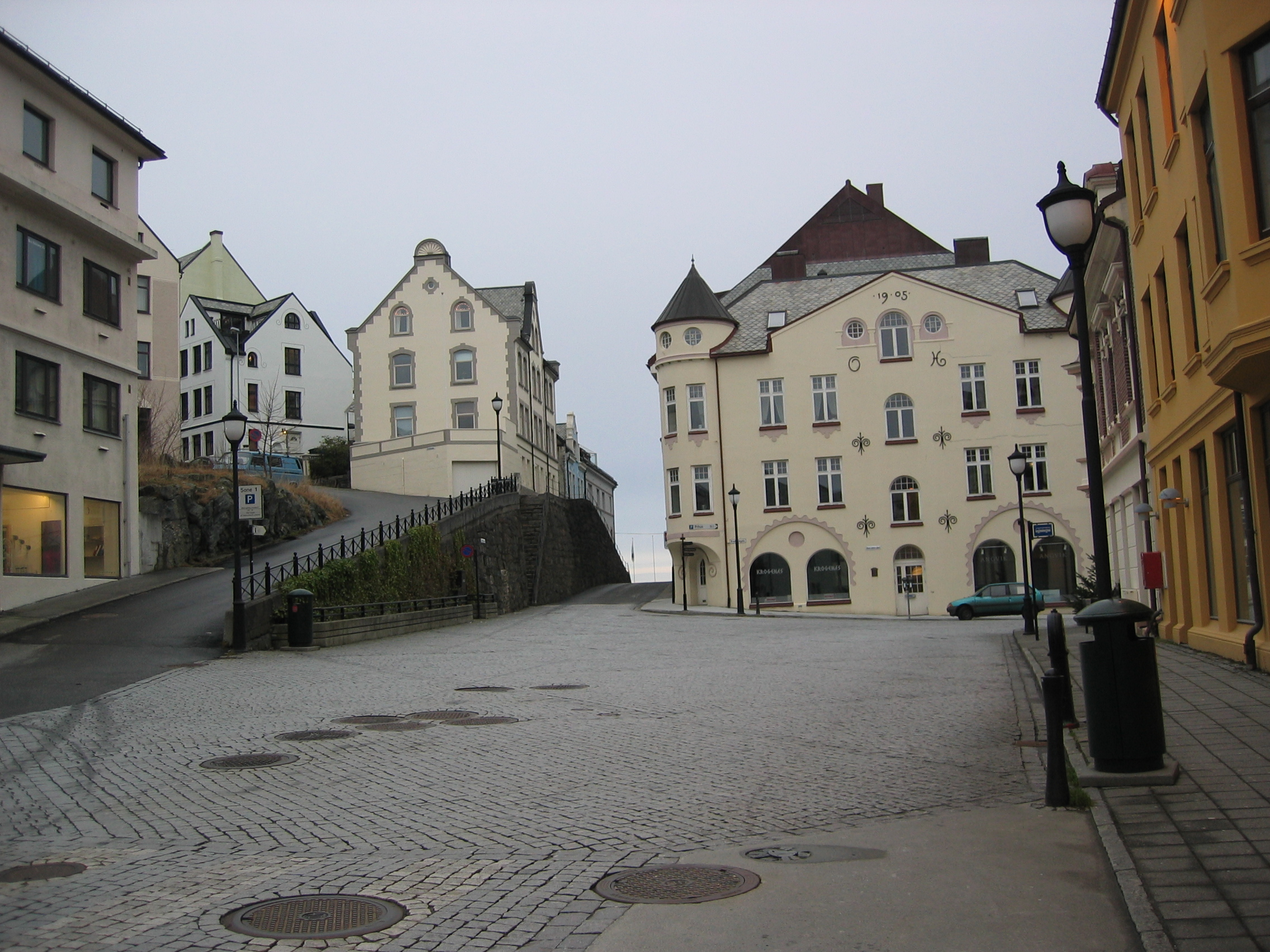 Buildings and street in Ålesund.